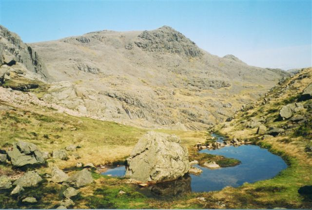 Foxes Tarn View looking towards Scafell Pike on a day of very good visibility. At a time when the Lords Rake route was not recommended due to the dangers of possible rock fall, the route via Foxes Tarn made for a logical alternative to a walk between Scafell and Scafell Pike. The main drawback of this route is that the descent involved has to be regained in approaching Mickledore.